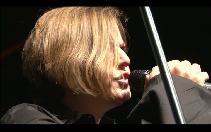 Fanny Fortunati, the singer of the music group Rêverie, during the concert at World's Esperanto Congress in Copenhagen, on July 28th, 2011.